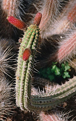 A Firecracker Cactus from the Desert Botanical Gardens, Phoenix. In context at